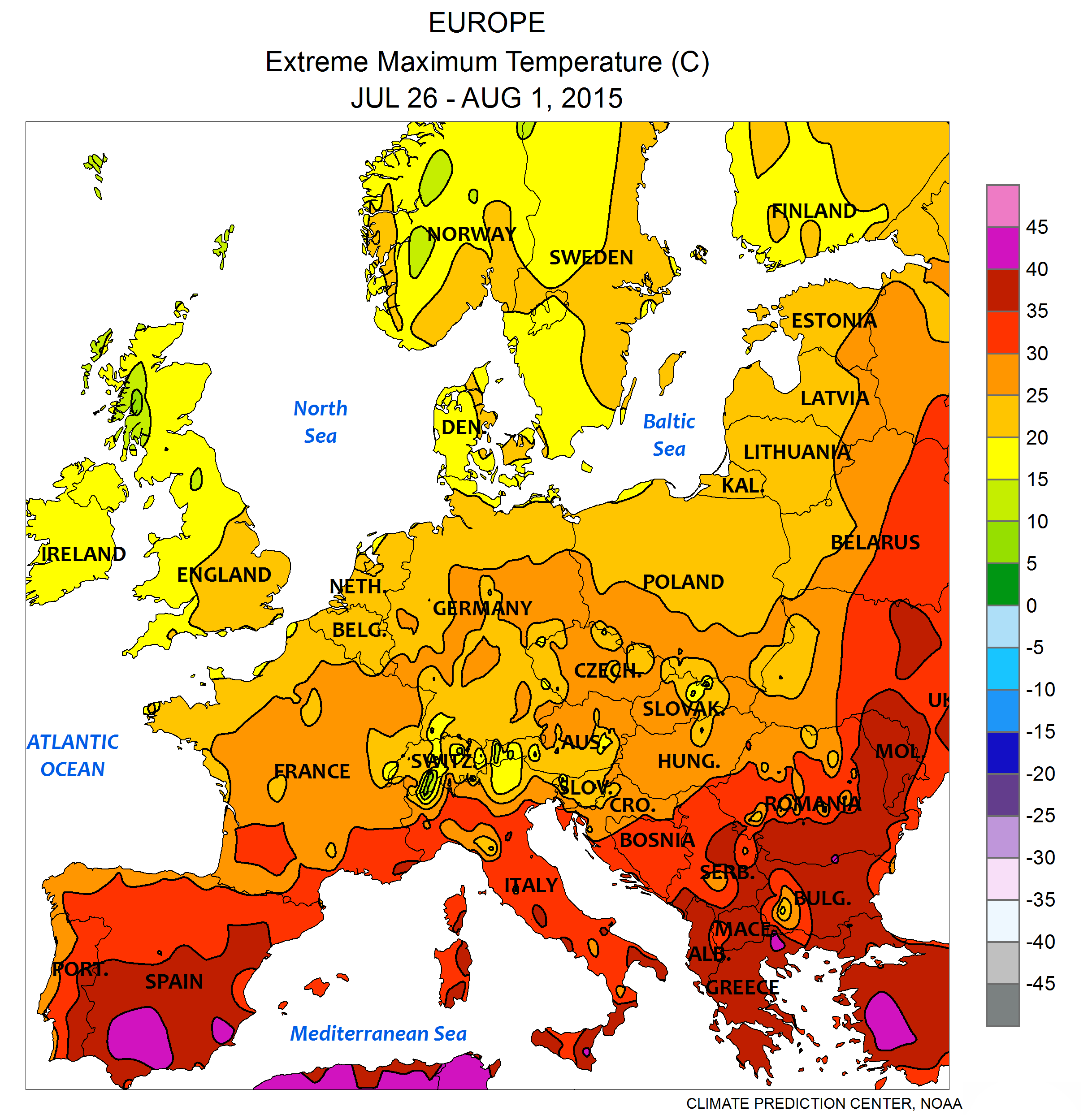 Europe: Extreme maximum temperature July 26 - August 01, 2015, computer generated colours, based on preliminary data